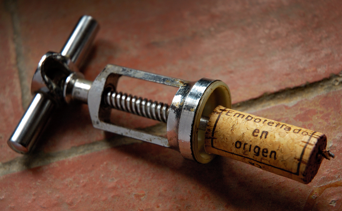 Extracted cork closure inscribed with "Bottled at origin" in SpanishShot with Nikon D70s